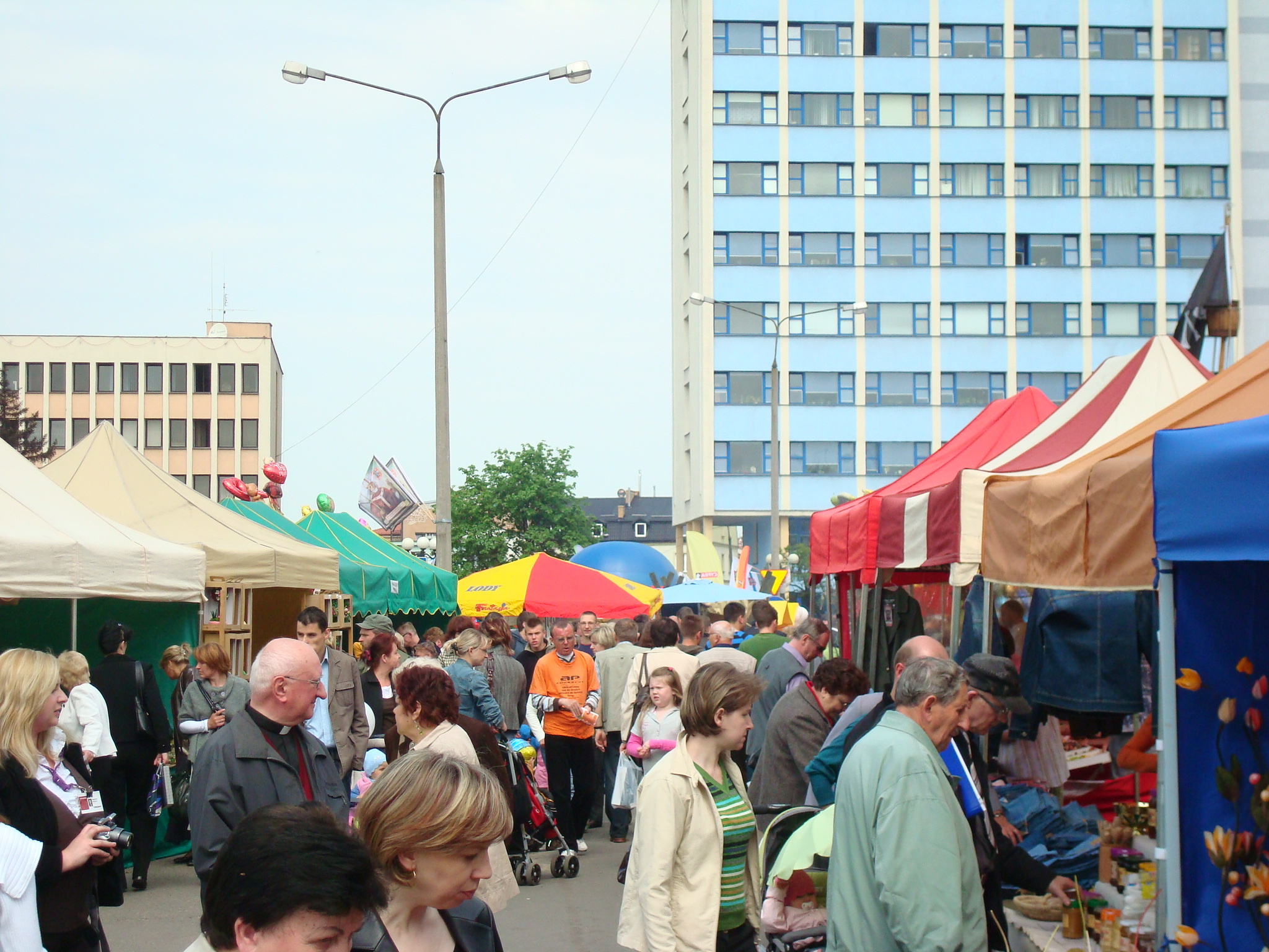 Holy fair Stanisław in Siedlce